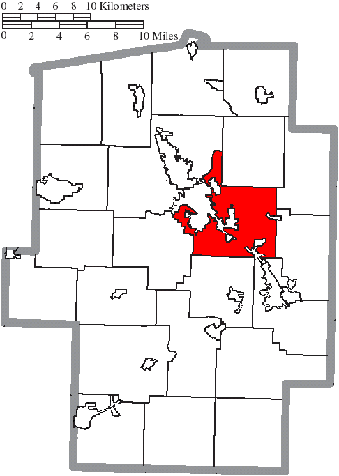 Map of the municipal and township boundaries of Tuscarawas County, Ohio, United States, as of the 2000 census, with the location of Goshen Township highlighted. Township borders are shown only in unincorporated areas in order to differentiate incorporated and unincorporated areas more clearly.